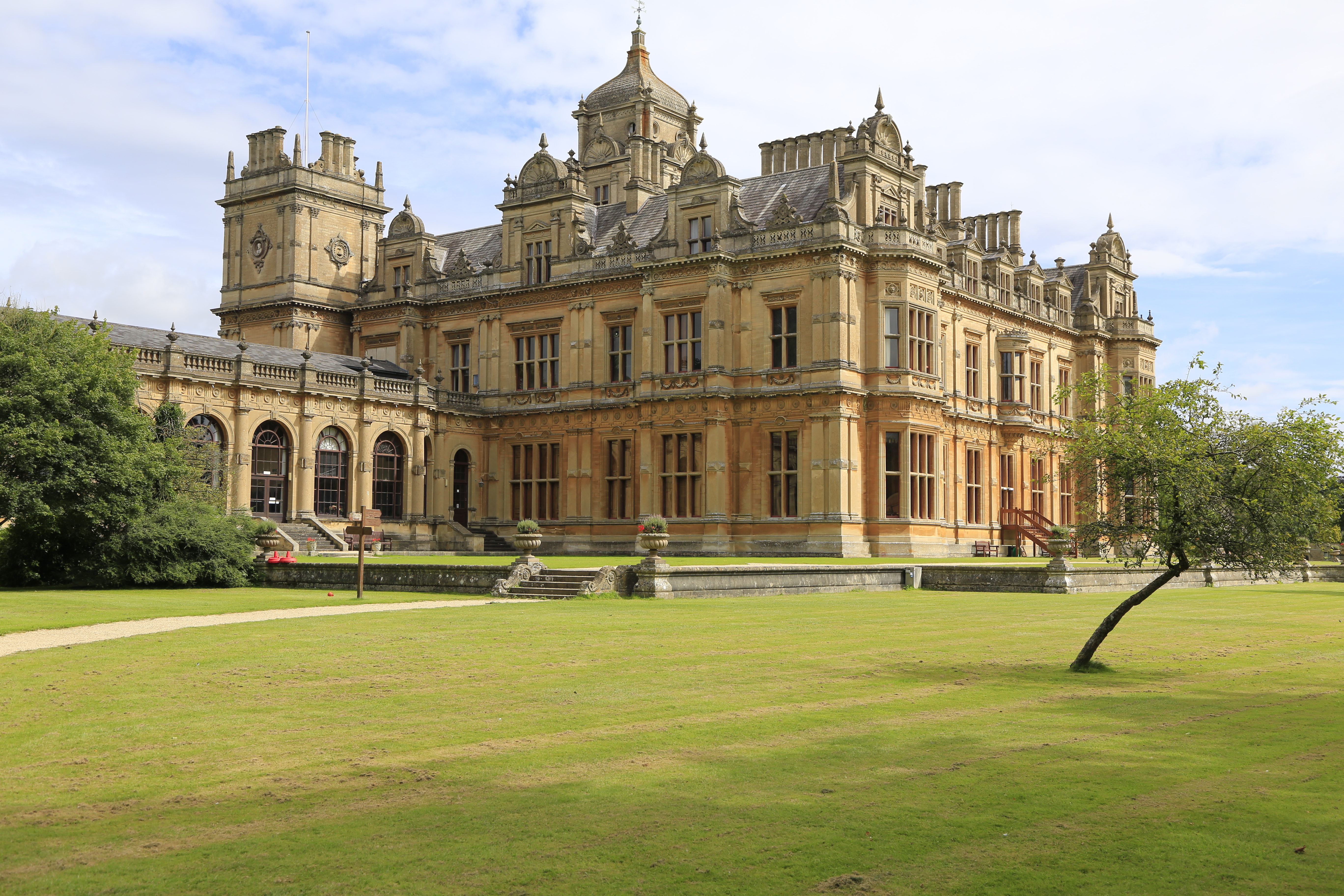 Performance venue for Bampton Classical Opera